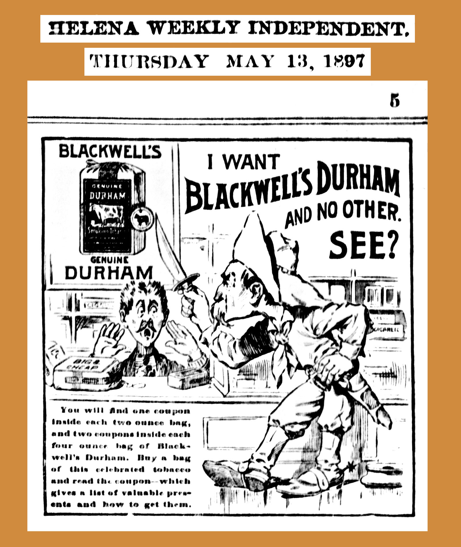 Newspaper display advertisement for Blackwell's Durham tobacco, in the Helena Weekly Independent newspaper (Helena, Montana, U.S., May 13, 1897)